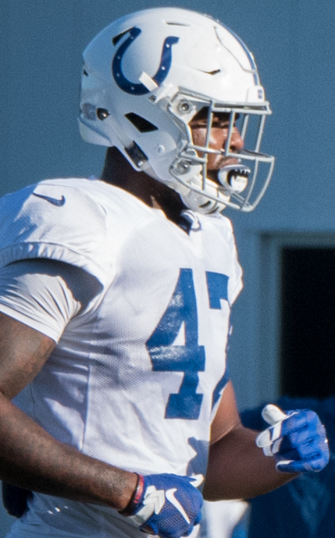 U.S. Department of Agriculture (USDA) Secretary Sonny Perdue and retired football great and NFL Hall-of-Famer Marshall Faulk, talk about USDA’s role in the NFL’s Fuel Up to Play 60 program, and the importance of milk nutrition and physical fitness; the students talk about how they have encourage others to include physical activity in their lives, schools and community; all the while the Indianapolis Colts football players are training on the adjacent football fields, at the Indiana Farm Bureau Football Center, in Indianapolis, IN, on August 8, 2017. U.S. Secretary of Agriculture Sonny Perdue is on a five-state RV tour, featuring stops in five states: Wisconsin, Minnesota, Iowa, Illinois, and Indiana; titled the “Back to Our Roots” Tour, he is gathering input on the 2018 Farm Bill and increasing rural prosperity, Aug. 3-8, 2017. Along the way, Perdue will meet with farmers, ranchers, foresters, producers, students, governors, Members of Congress, U.S. Department of Agriculture (USDA) employees, and other stakeholders. This is the first of two RV tours the secretary will undertake this summer. “The ‘Back to our Roots’ Farm Bill and rural prosperity RV listening tour will allow us to hear directly from people in agriculture across the country, as well as our consumers – they are the ones on the front lines of American agriculture and they know best what the current issues are,” Perdue said. “USDA will be intimately involved as Congress deliberates and formulates the 2018 Farm Bill. We are committed to making the resources and the research available so that Congress can make good facts-based, data-driven decisions. It’s important to look at past practices to see what has worked and what has not worked, so that we create a farm bill for the future that will be embraced by American agriculture in 2018.” For social media purposes, Secretary Perdue’s Twitter account (@SecretarySonny) will be using the hashtag #BackToOurRoots. USDA Photo by Lance Cheung.